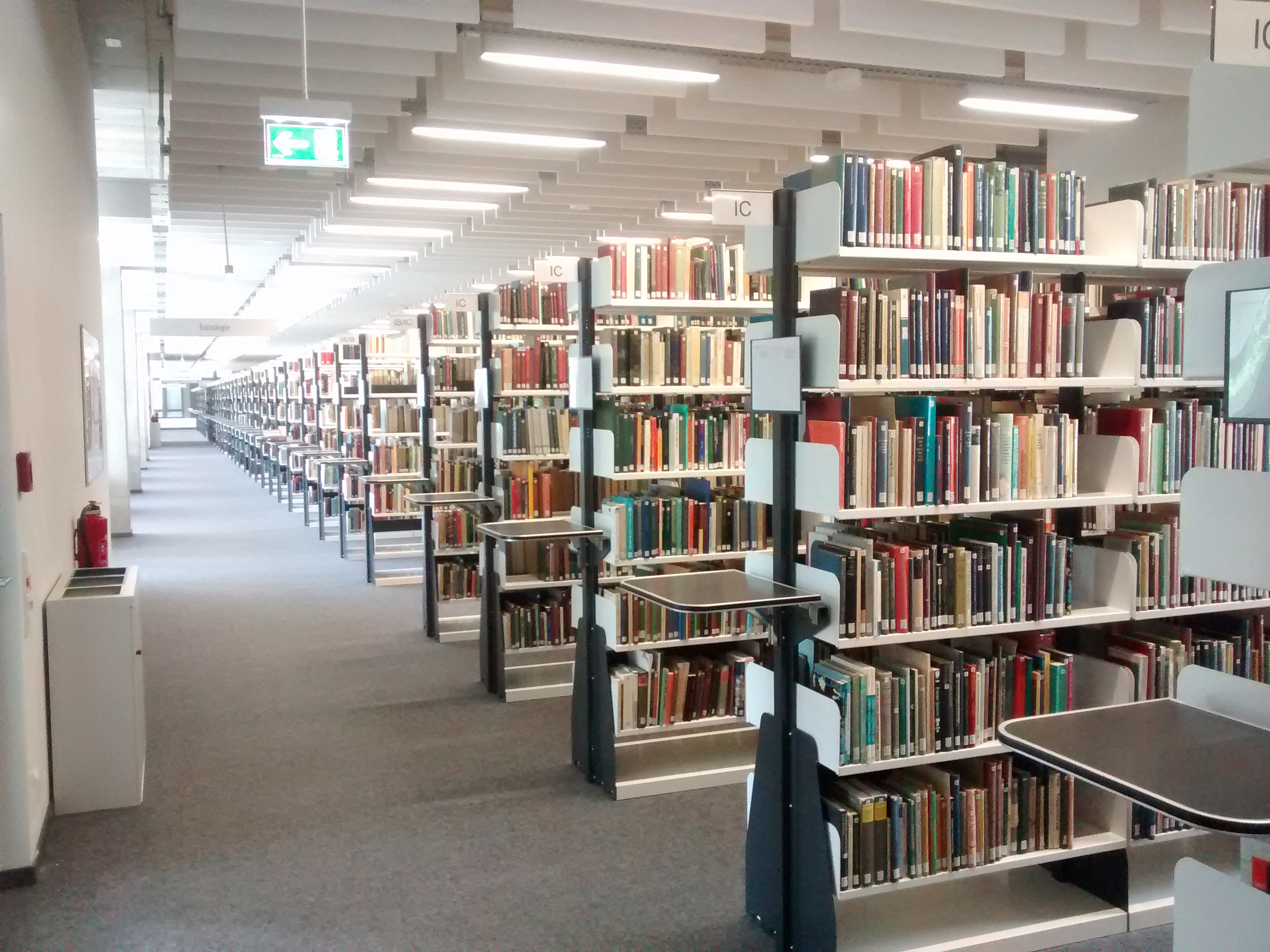 A good sorted, and systematically used book- operatingsystem, with some masterpieces and some fine equipment. While the rooms and tables are also fine, and state of art.